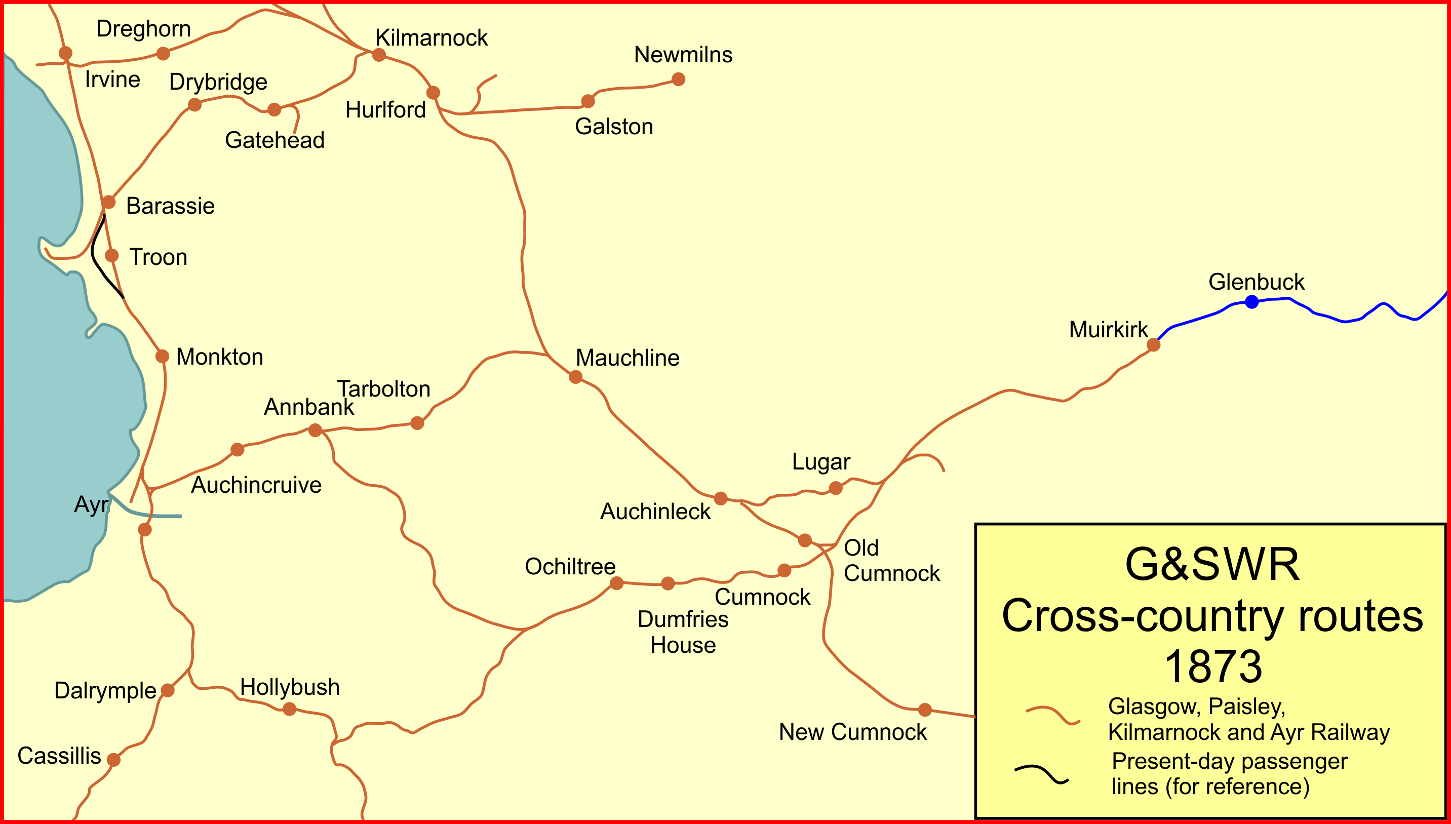 System map of cross-country lines of the Glasgow and South Western Railway in 1873